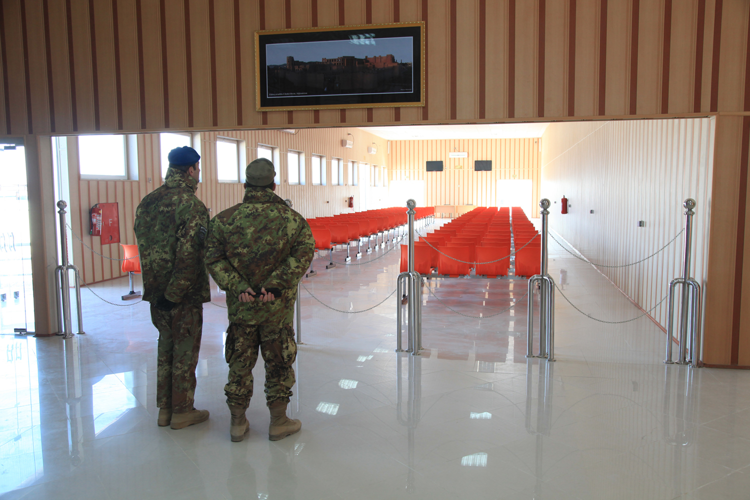 Italian soldiers assigned to Regional Command - West observe the newly-completed Herat International Airport terminal at an opening ceremony Feb. 13. The airport is part of a recent string of development projects in Herat province.